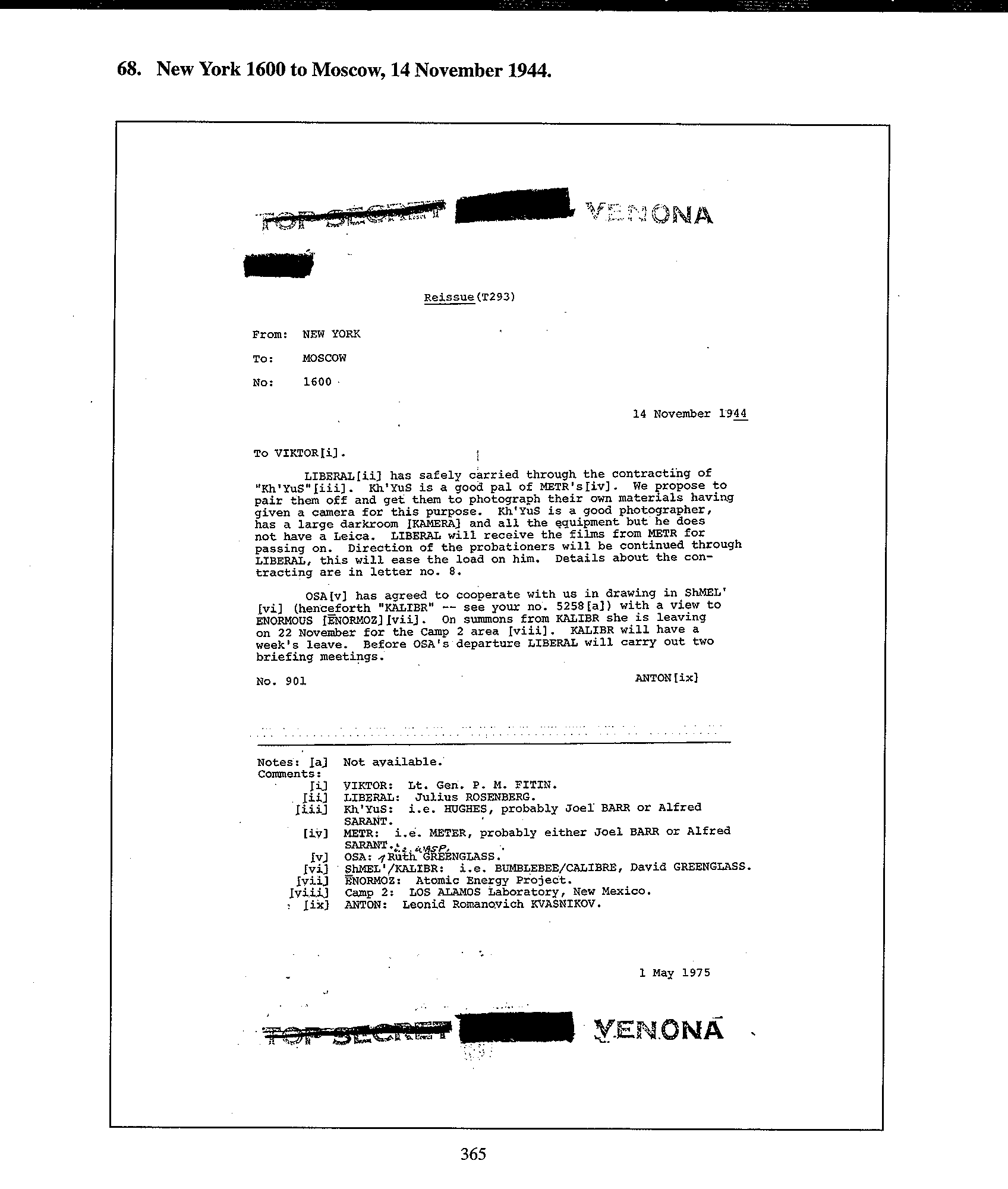 One of the Venona documents describing Julius Rosenberg work with spy network